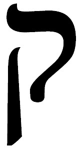 Hebrew letter qoph